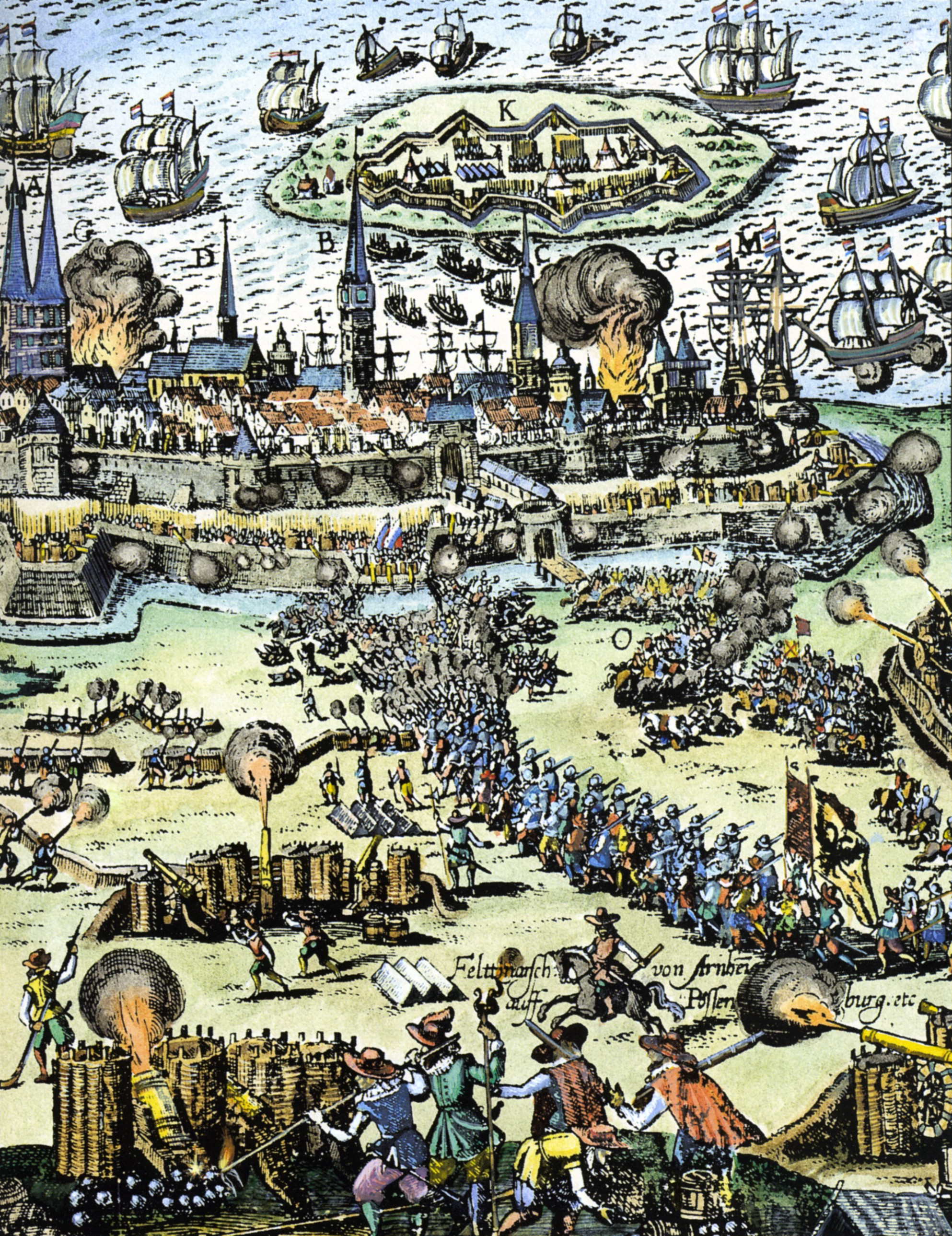 Siege of Stralsund (1628}, engraving, hand-colored